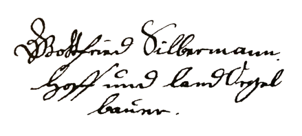 signature of Gottfried Silbermann, German organbuilder